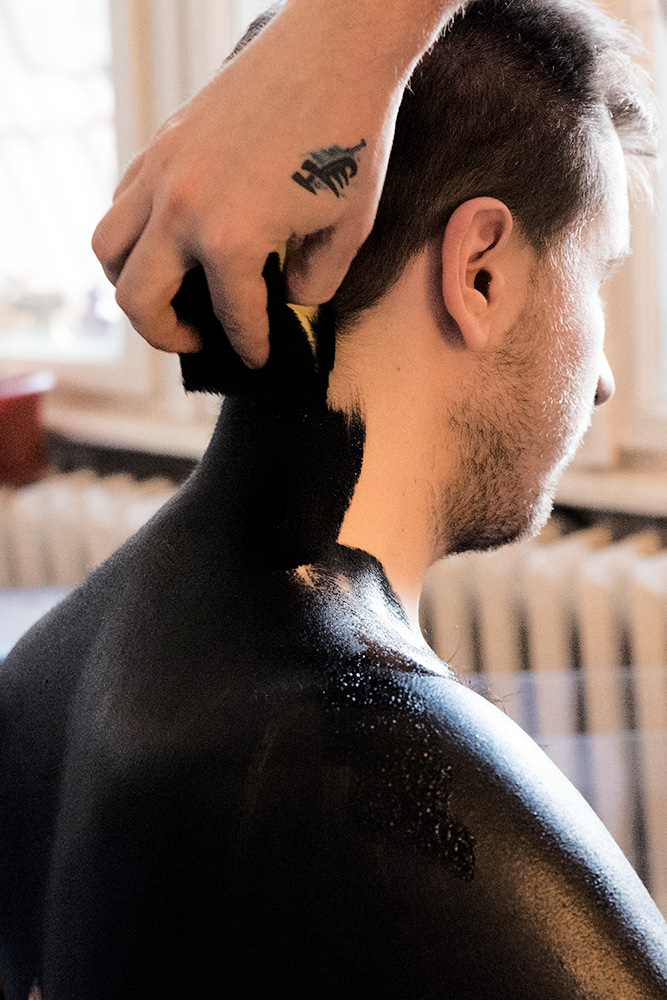 Painting on the human body; preparation for low-key shooting